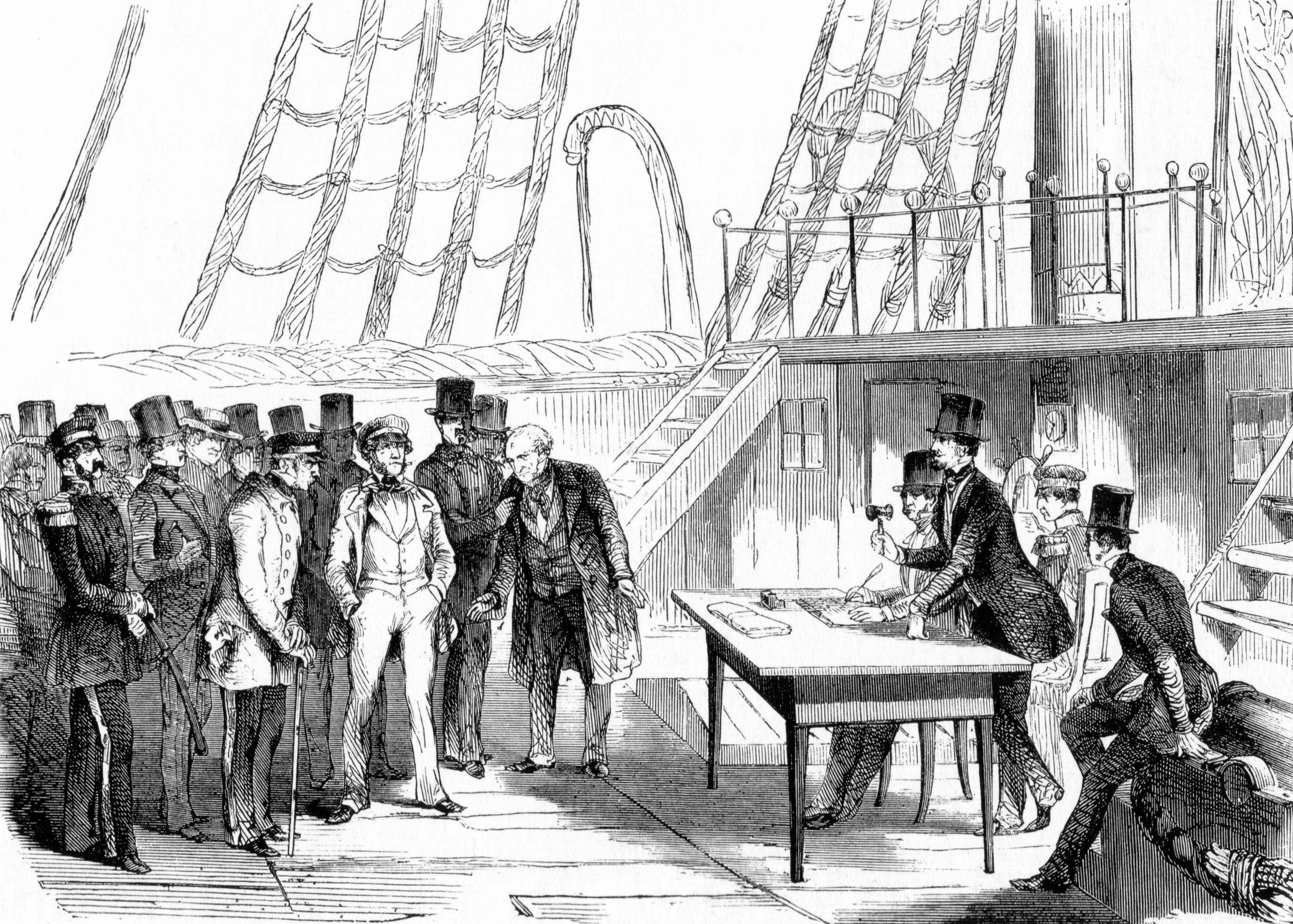 Imperial fleet.